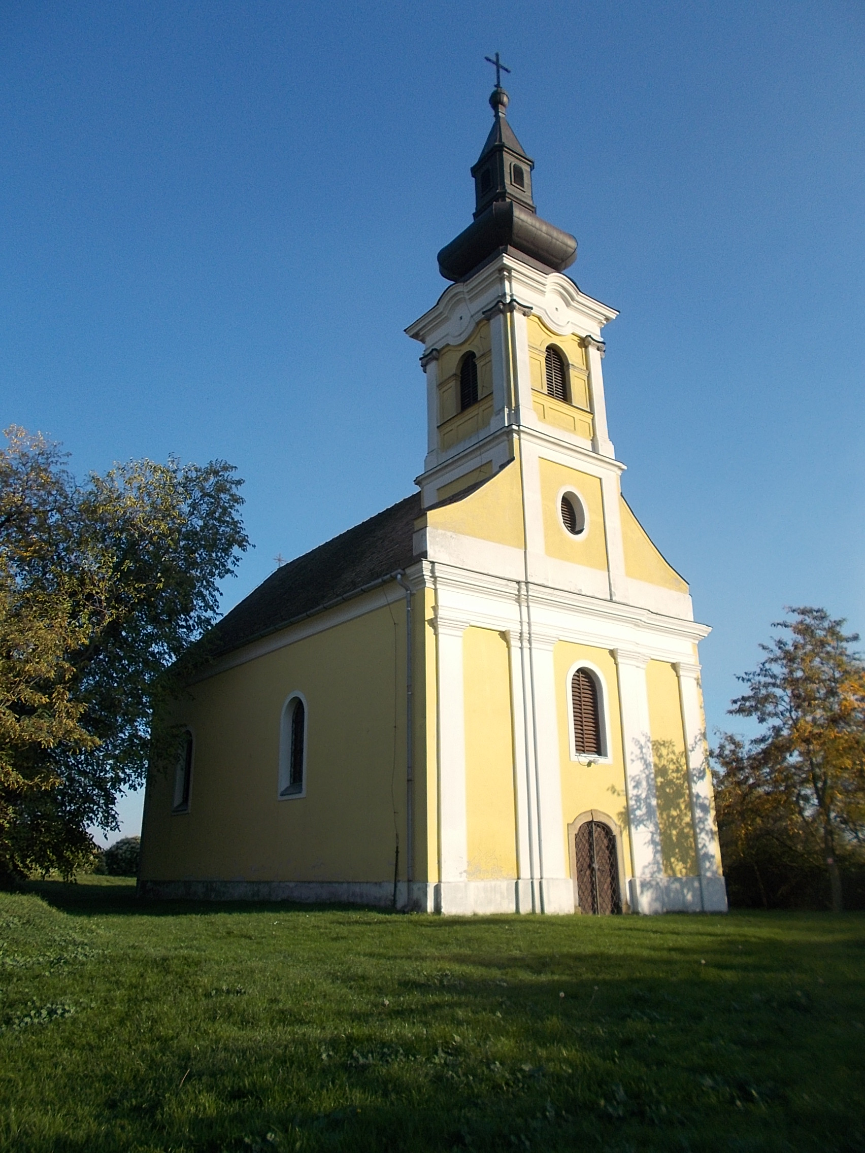 Serbian Orthodox Church. Listed. Built in 1786, Baroque church. Interior: iconostasis, altar ('popular' baroque, 18th. cent.) - Táltos Street, Dunaújváros, Fejér County, Hungary.